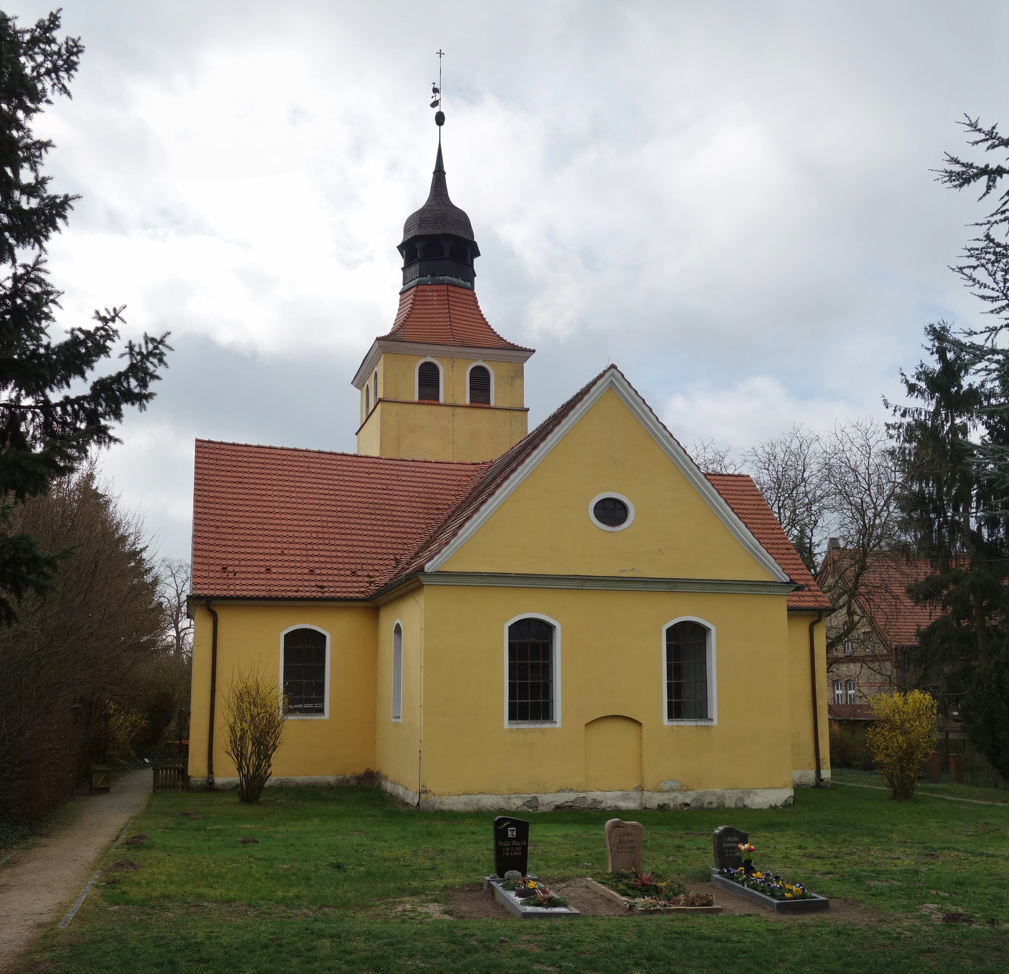 North-north-eastern view of the church in Grünefeld , Schönwalde-Glien municipality , Havelland district, Brandenburg state, Germany.